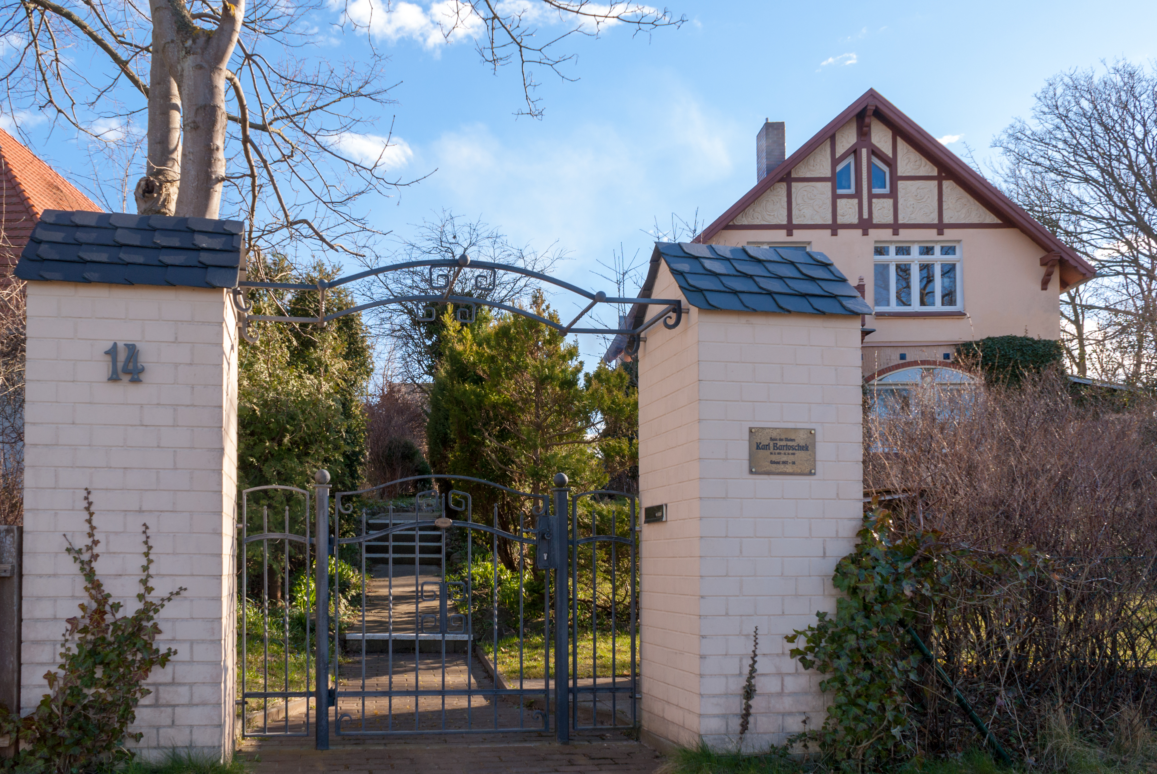 Villa of Karl Bartoschek in Ahrenshoop, Germany